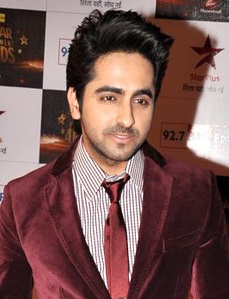 Ayushmann Khurrana at Zee Cine Awards 2013